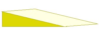 Moved here from German Wikipedia. Creator has granted all rights.